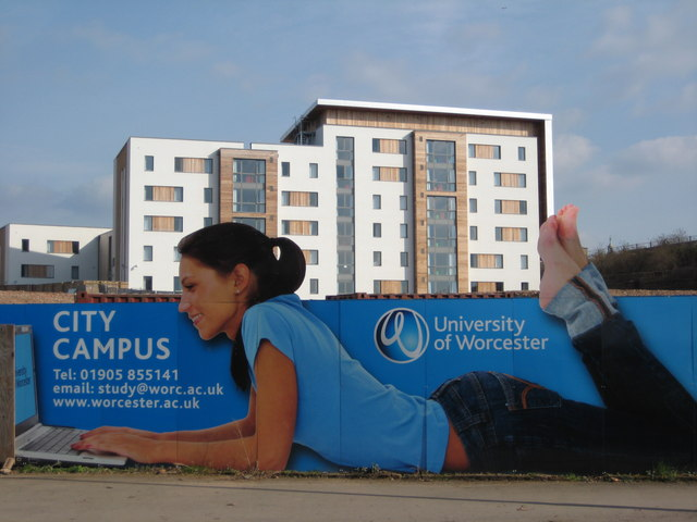 University of Worcester, City Campus The site of the former Worcester Royal Infirmary is currently being redeveloped as the City Campus for the University of Worcester. Some traditional buildings have been refurbished while some new building has taken place as can be seen here.